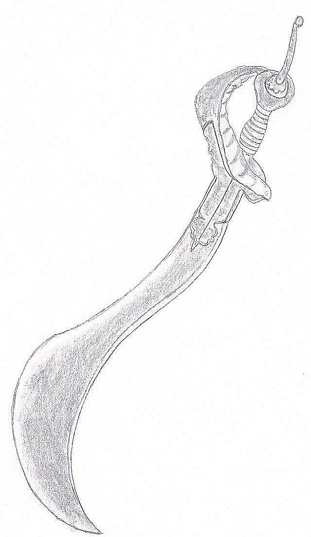 Curved-tegha-sword